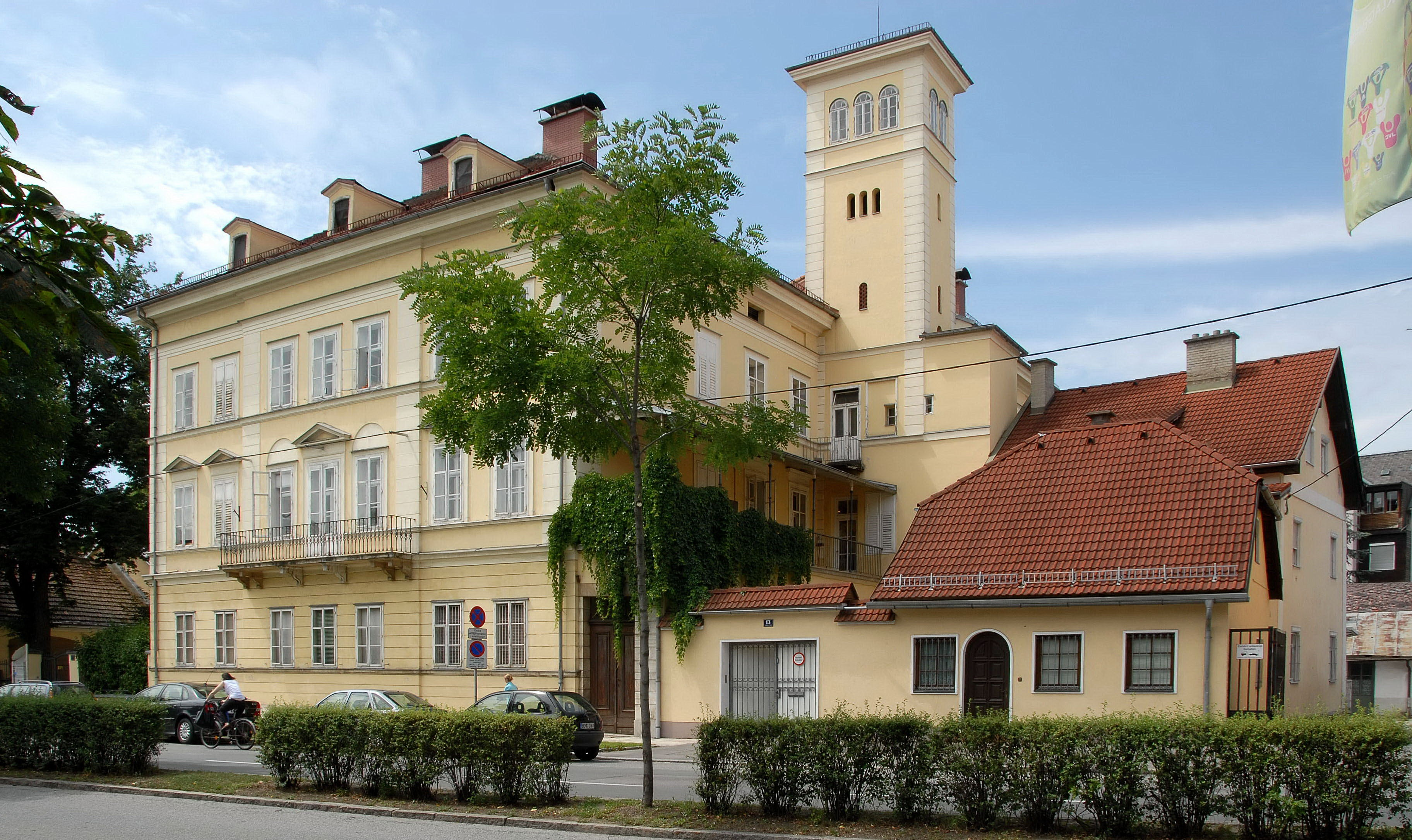 Villa Venchiarutti on Villacher Ring #11, 8th district “Villacher Vorstadt”, Klagenfurt, Carinthia, Austria, EU